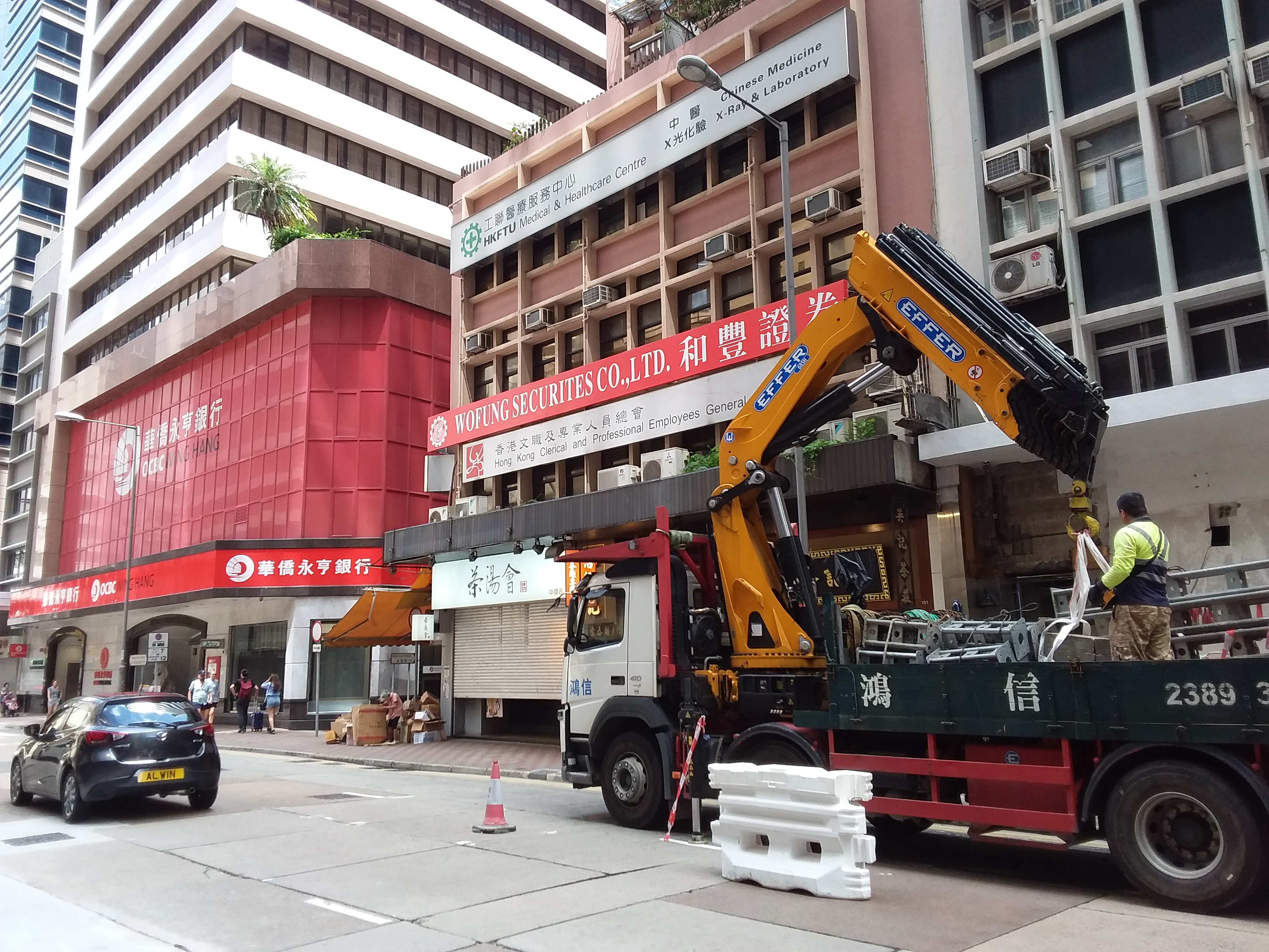 HK 中環 Central 皇后大道中 Queen's Road Central morning Sunday in June 2019